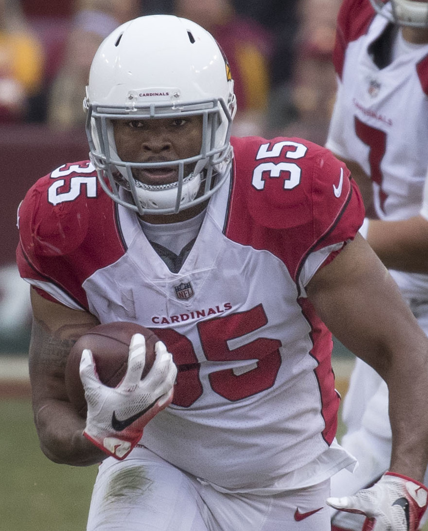 Cardinals at Redskins 12/17/17